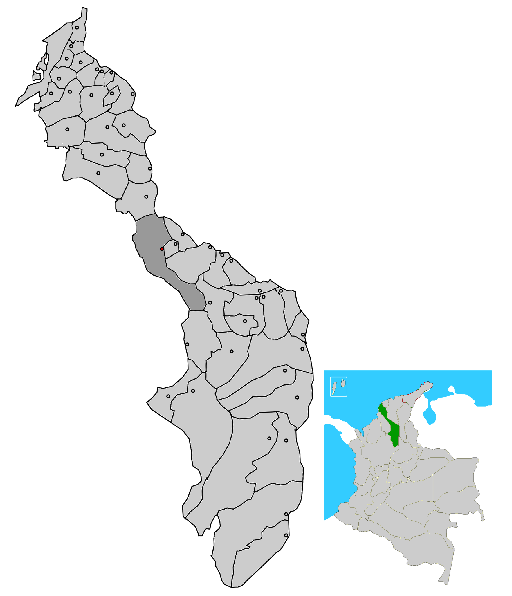 Image depicting map of the municipality and town of Magangue in the Bolivar Department, Colombia.